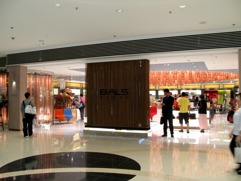 BALS Tokyo Store in Hong Kong Elements